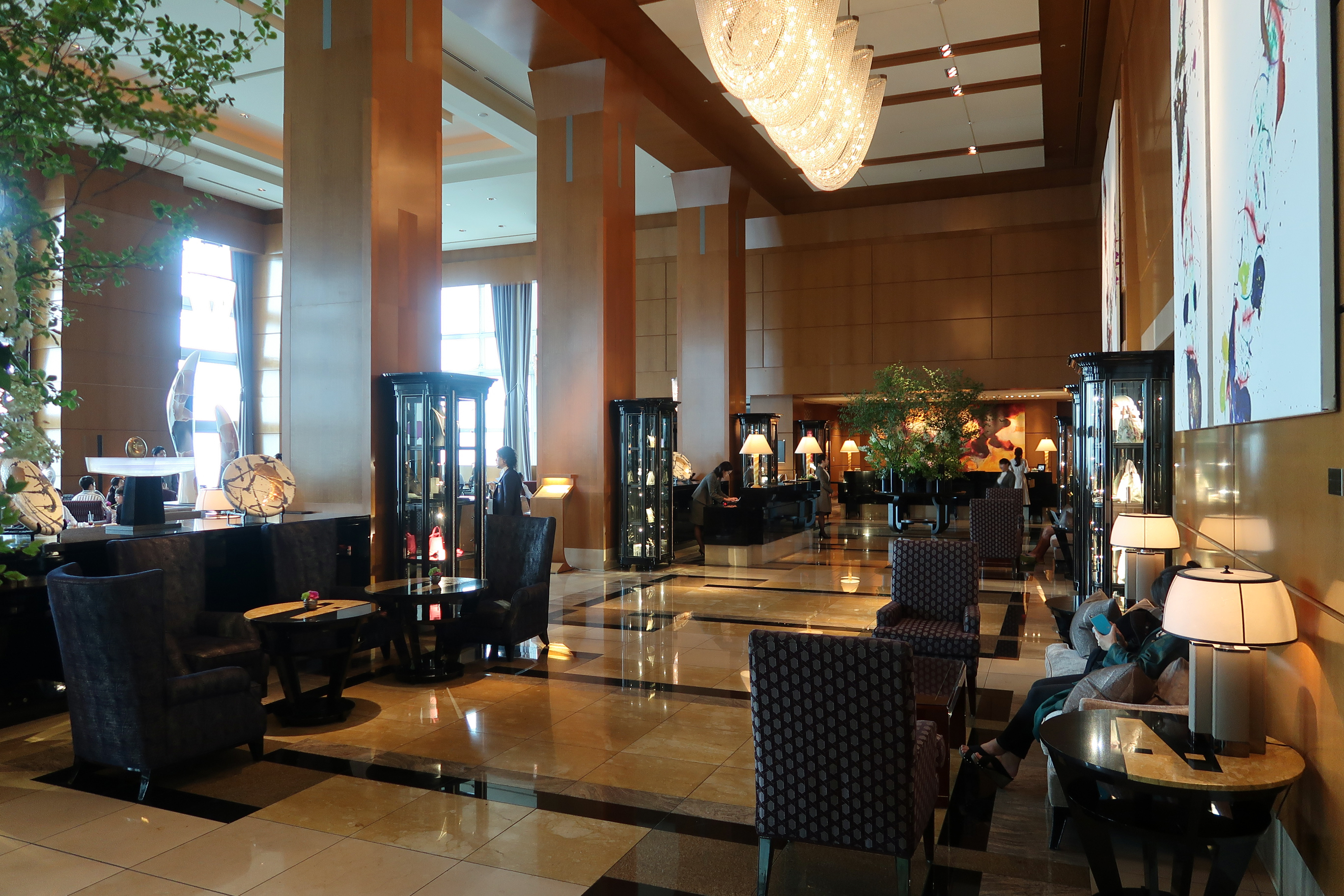 The Ritz-Carlton Tokyo Lobby